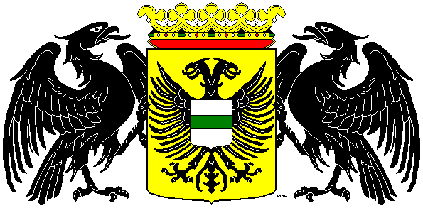 Coat of arms of Groningen, province of Groningen, The Netherlands.